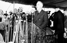 October 5, 1937: FDR delivers speech in Chicago calling for a "quarantine" of aggressor nations.